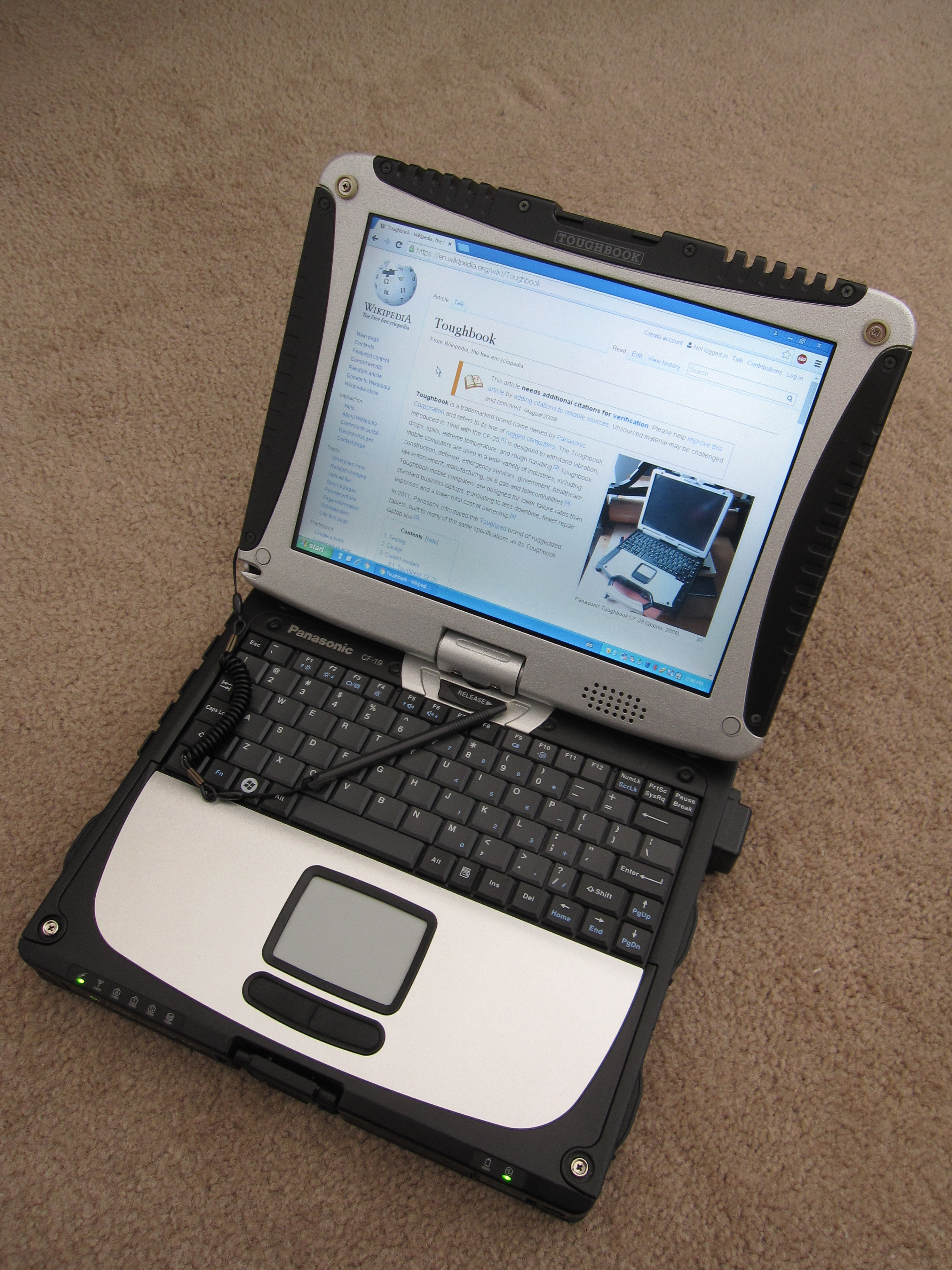 A Panasonic Toughbook CF-19CHBCNBA (MK1) laptop. It has a Intel Core Duo U2400 @ 1.06GHz CPU, 80GB rotational harddrive, DDR2 memory, standard water-resistant keyboard, resistive touchscreen, built-in GPS and HSDPA WWAN connection. Windows XP Professional is installed on this laptop and a Wikipedia page about Toughbook is displaying in Chrome browser.